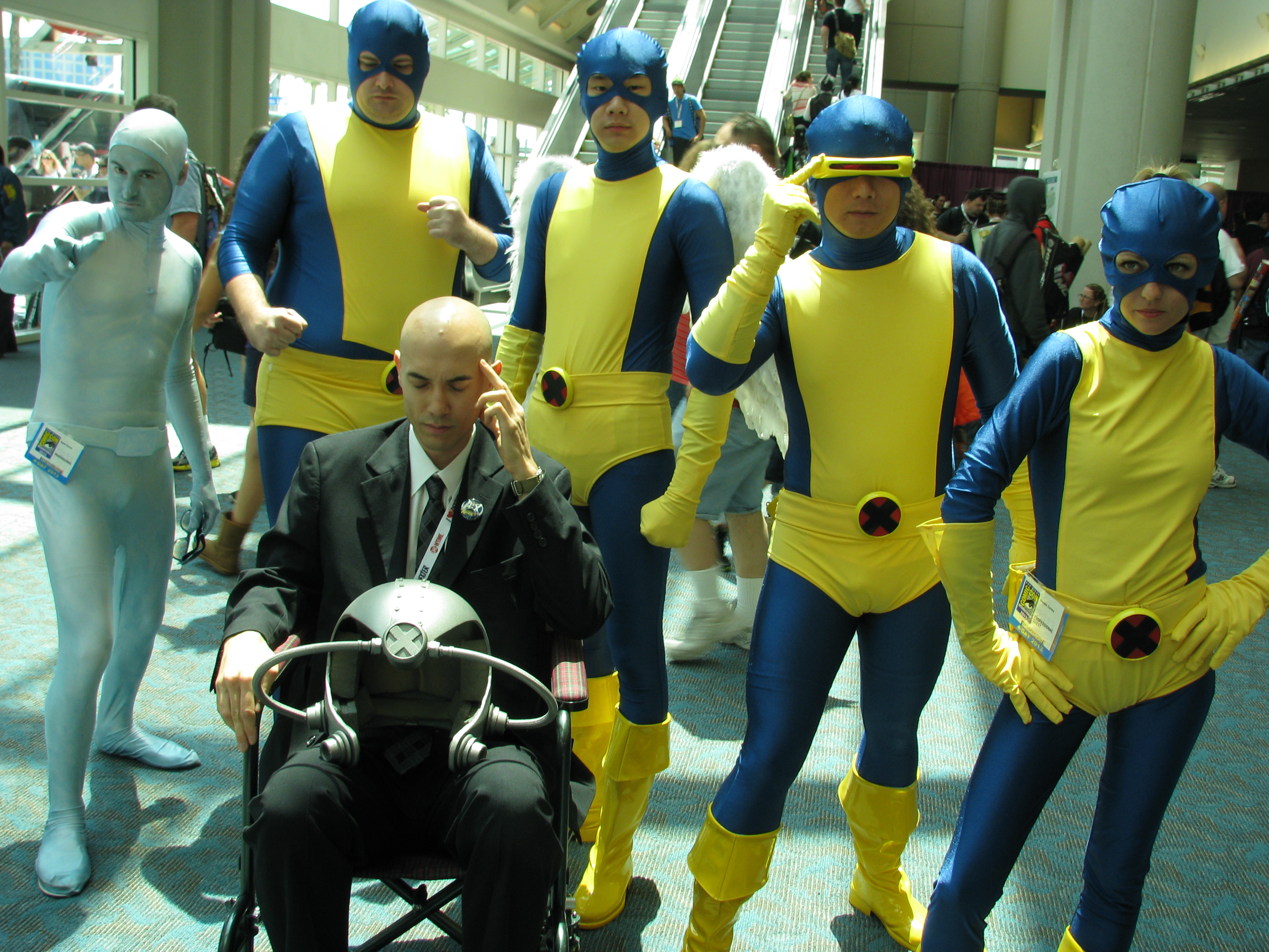 A group cosplay of the original X-Men. From the top row and left to right is Iceman, Beast, Angel, Cyclops, and Jean Grey [Marvel Girl]. In the front row is Prof. Xavier.